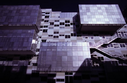 taisei high school